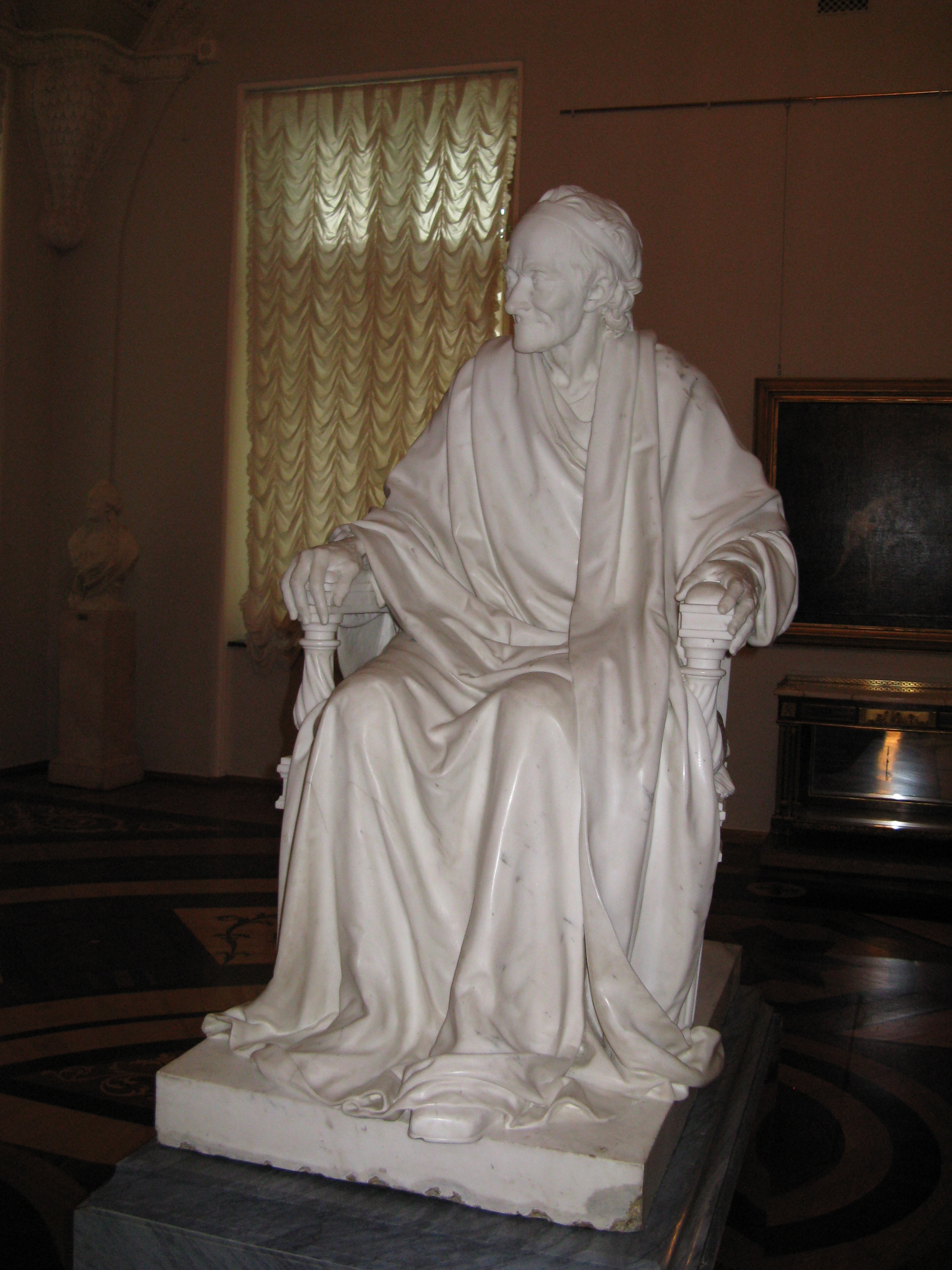 Voltaire Seated in an armchair by Jean Antoine houdon at The Hermitage Marble height 138 cm